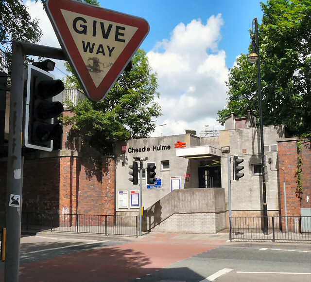 Station Entrance